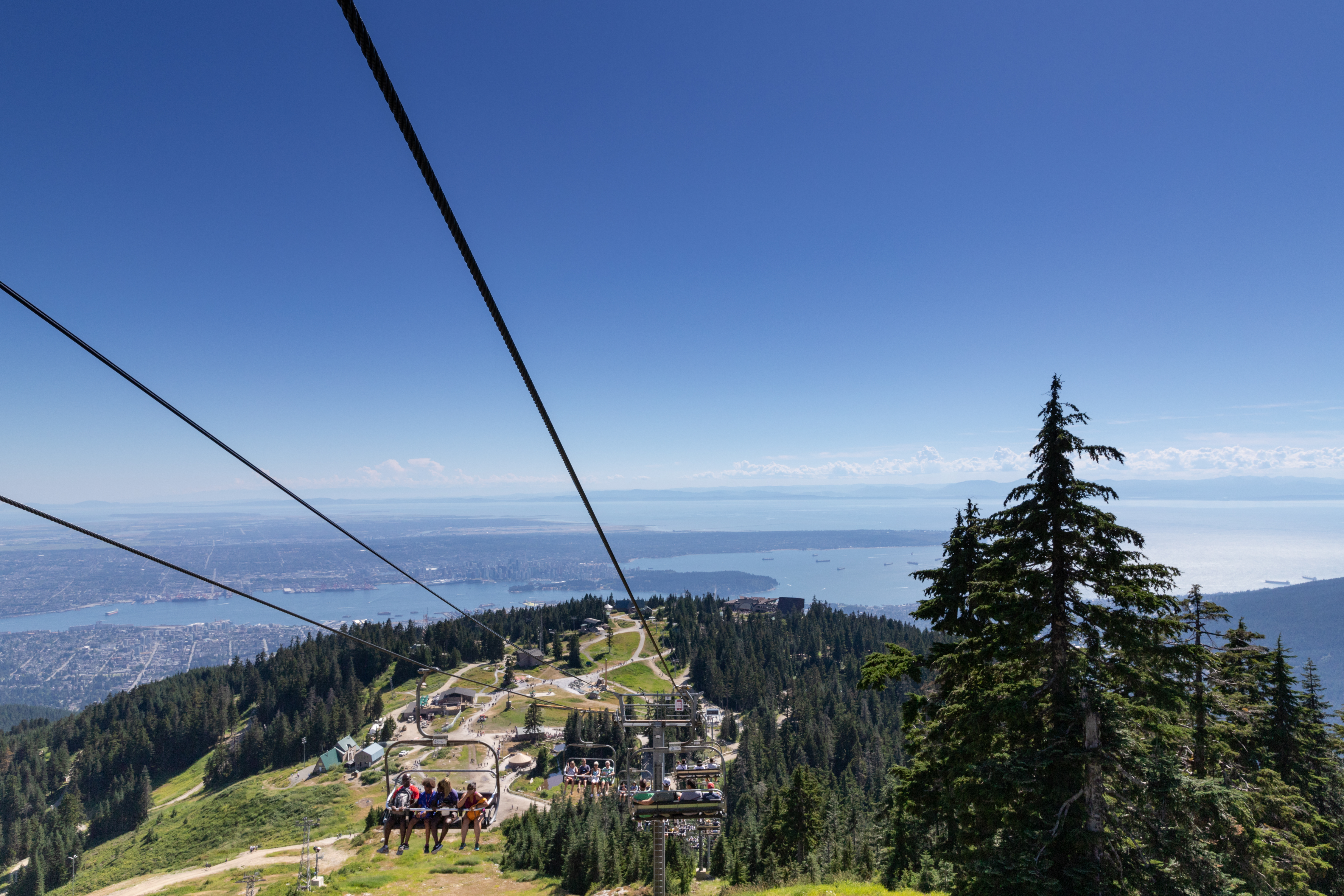 Grouse Mountain